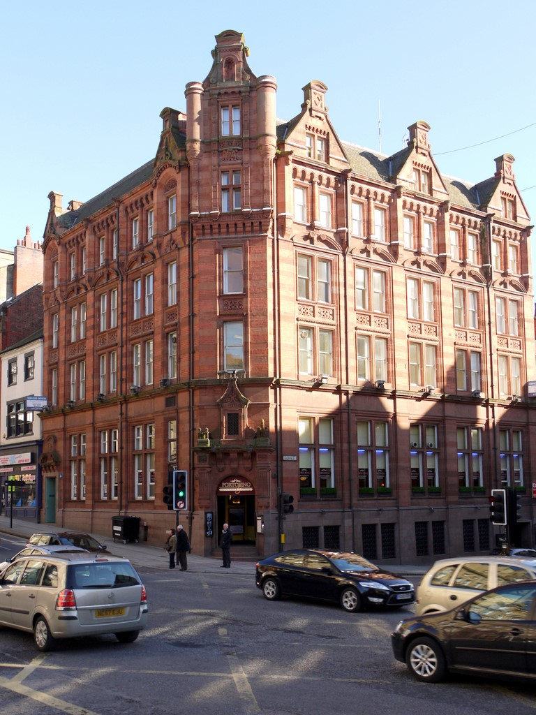 Churchill House, Mosley Street & Dean Street Designed by Alfred Waterhouse for the Prudential Life Assurance Company in 1891. The same architect was responsible for 1666558. Unlike most of the buildings in Newcastle, for this prominent site he used red sandstone, red brick and red granite topped with a green Lakeland slate roof. The ground floor is currently a restaurant and pizzeria, Portofino)